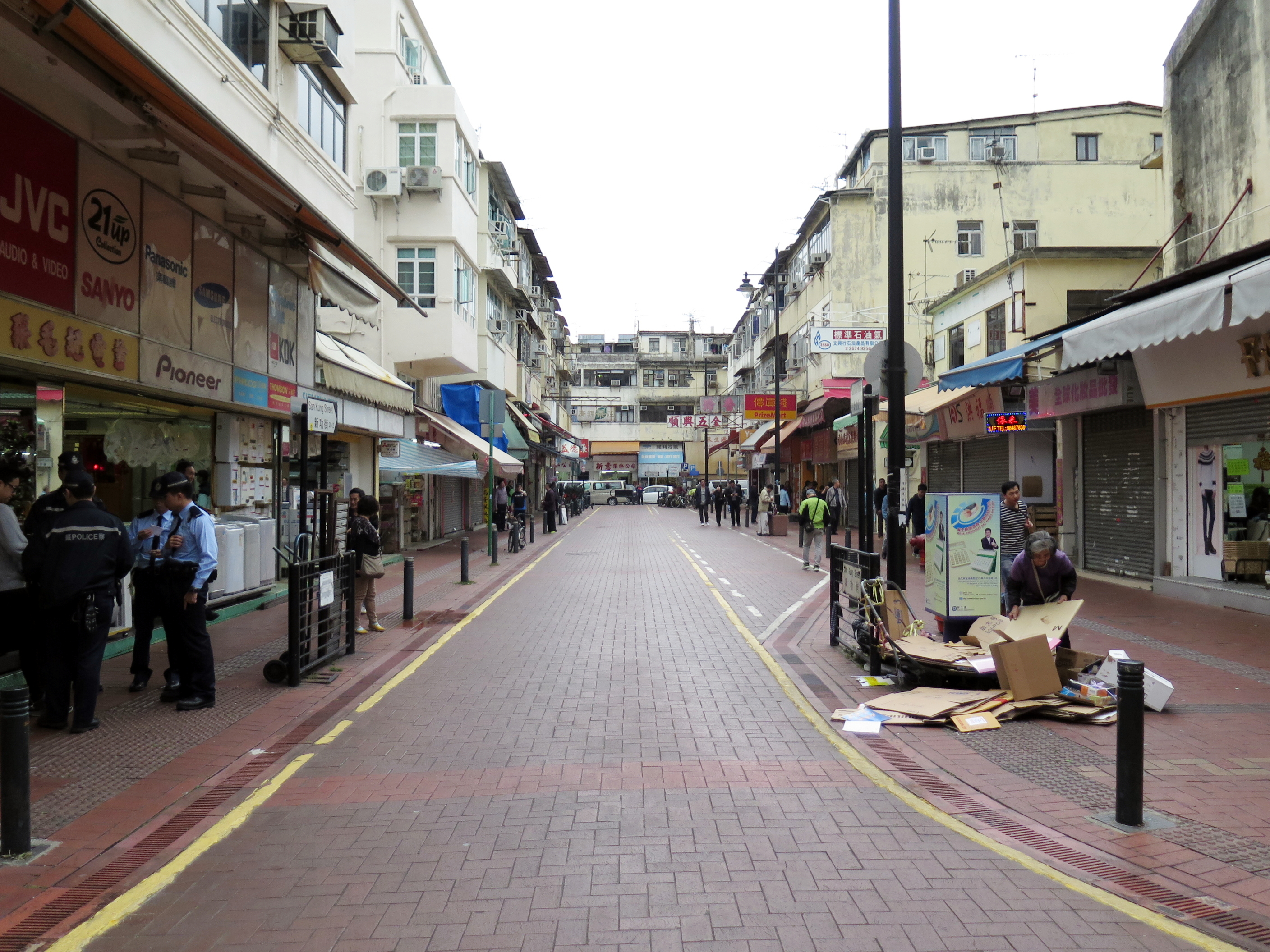 San Kung Street Shops closed